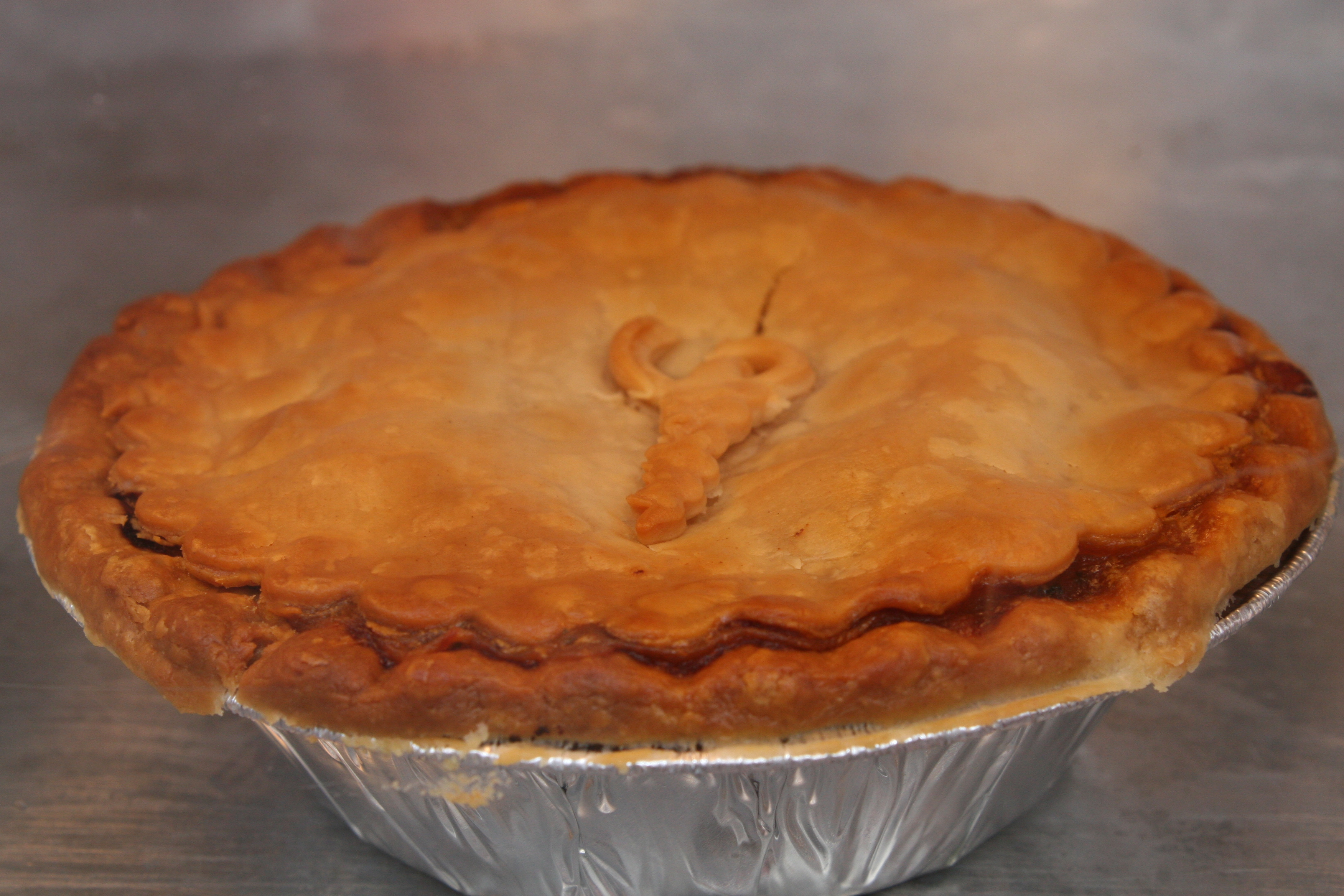 Crawfish pie closeup